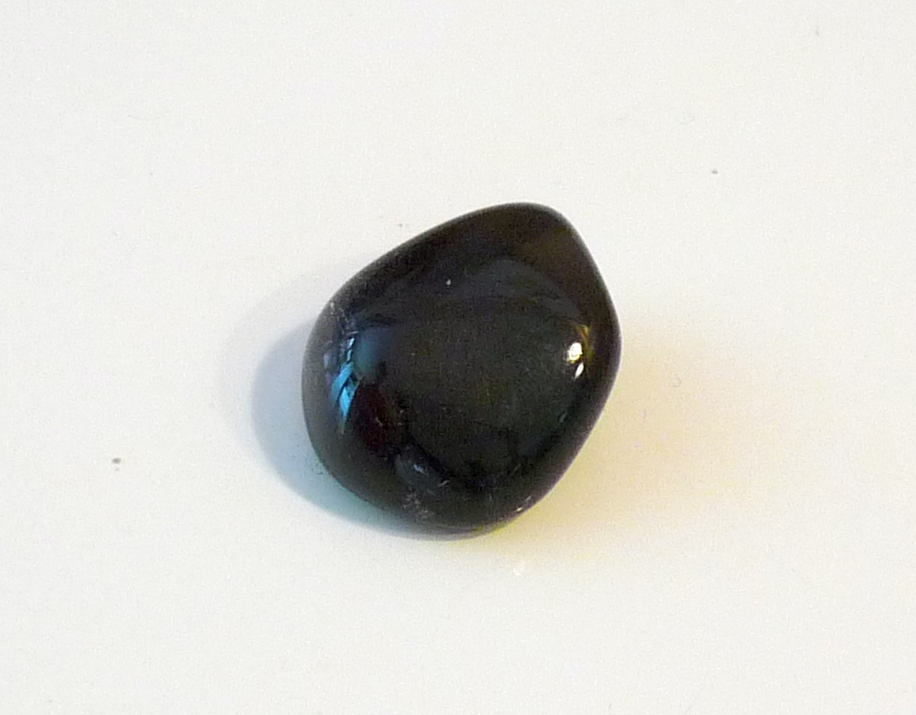 This is a picture of an Apache tear when light is not applied.